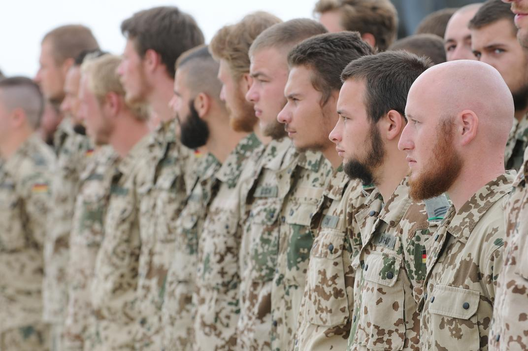 German Soldiers listen to International Security Assistance Force Chief of Staff German Army Lt. Gen. Bruno Kasdorf, speas before presenting the German Gold Cross of Honor medal to pilots and crew members of a U.S. air medevac unit, 5th Battalion, 158th Aviation Regiment, Katterbach, Germany, on May 12 at Provincial Reconstruction Team Kunduz. The German Gold Cross Medal, had never been awarded to foreign troops before. They were honored for their bravery evacuating wounded German Soldiers while under fire near Kunduz on April 2.(Photo by U.S. Army SFC Matthew Chlosta, ISAF PAO)